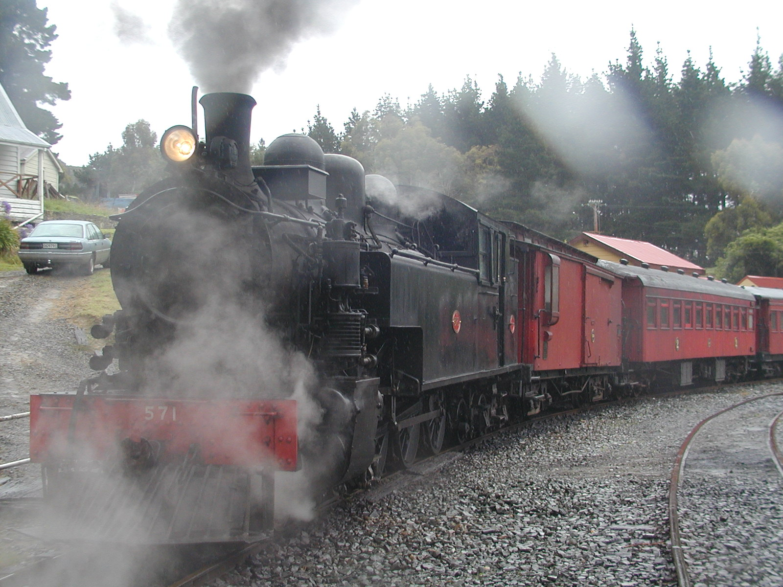 loco Ww571, silver stream railway, new zealand